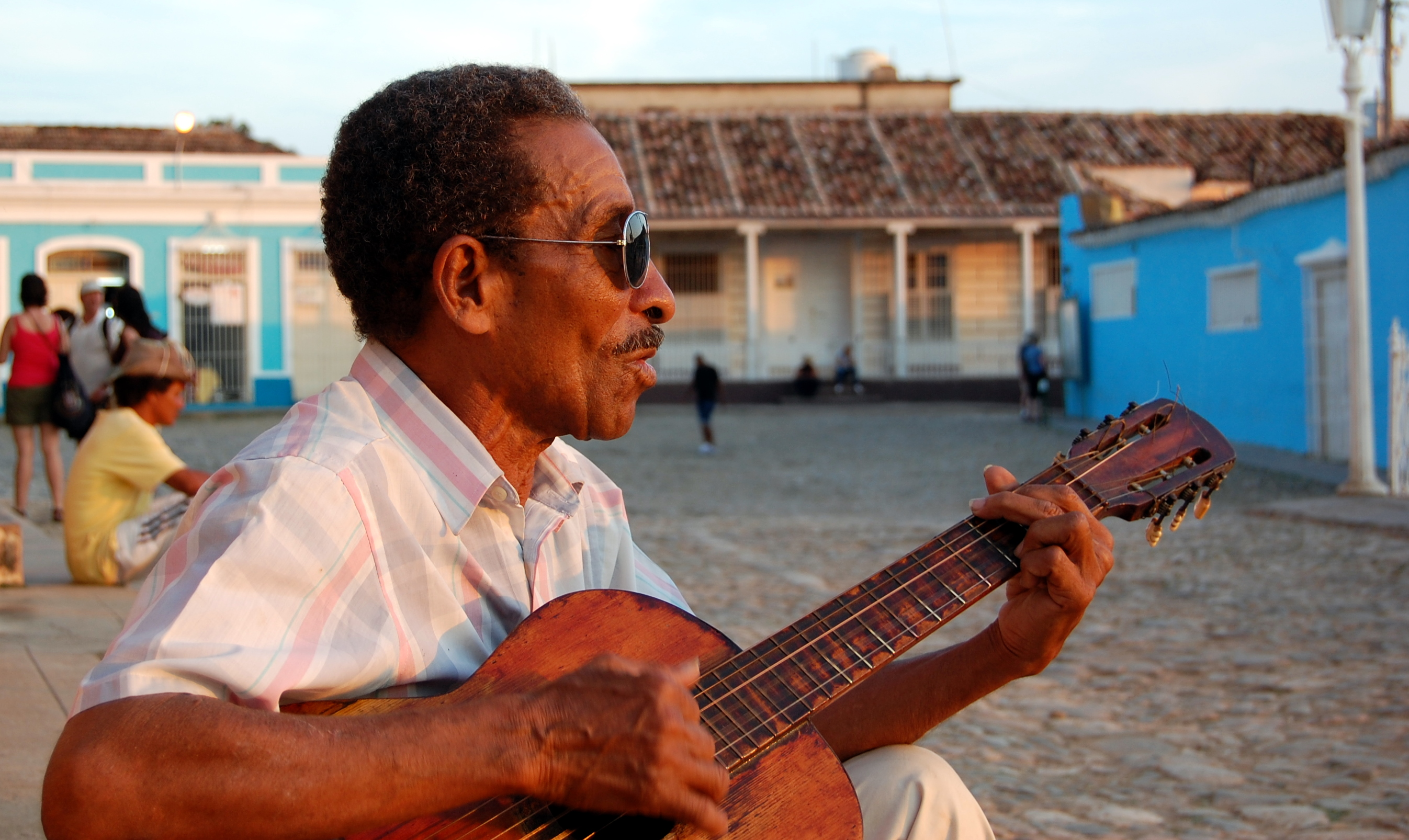 Cuban musician at main square in Trinidad